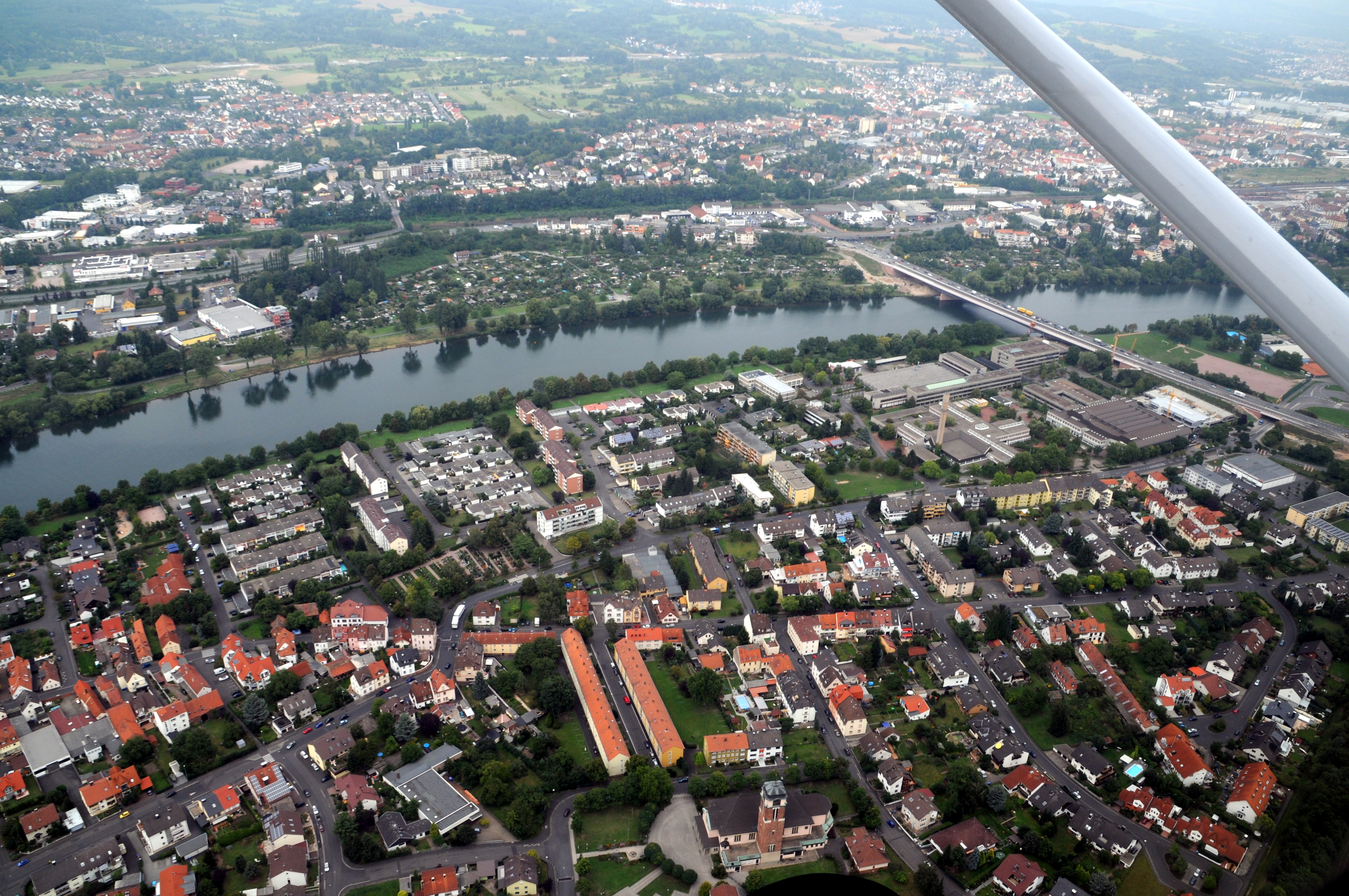 Leider & Damm, Aschaffenburg, Bavaria, Germany, aerial photograph